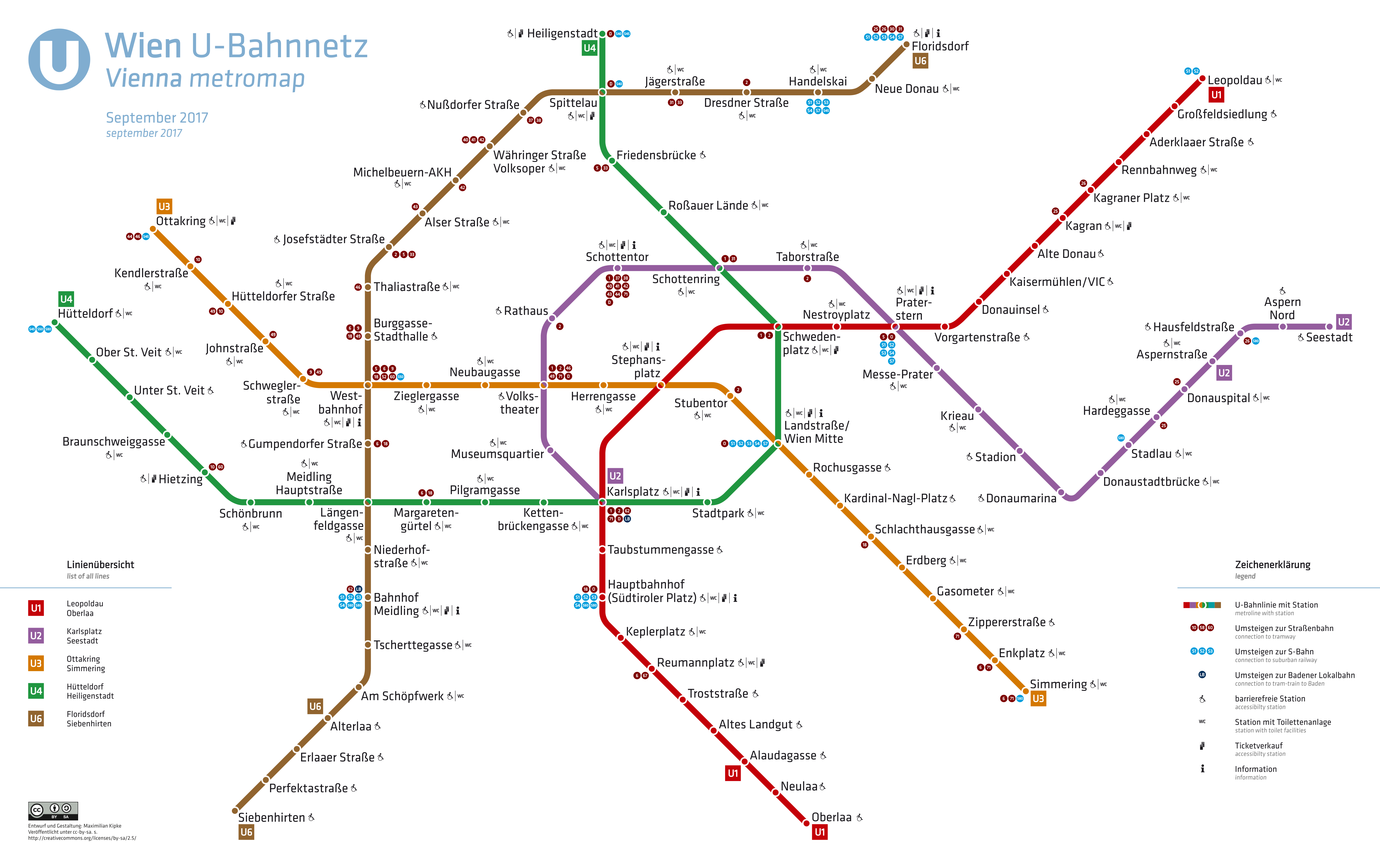 Metromap of Vienna in September 2017